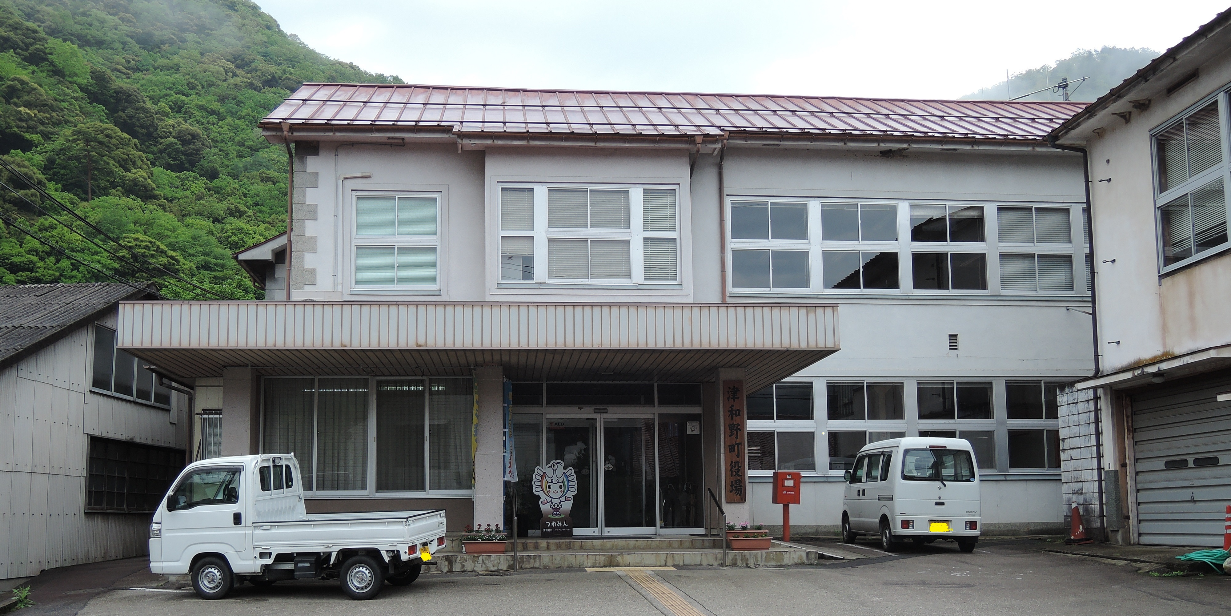 Tsuwano town hall,Shimane prefecture,Japan